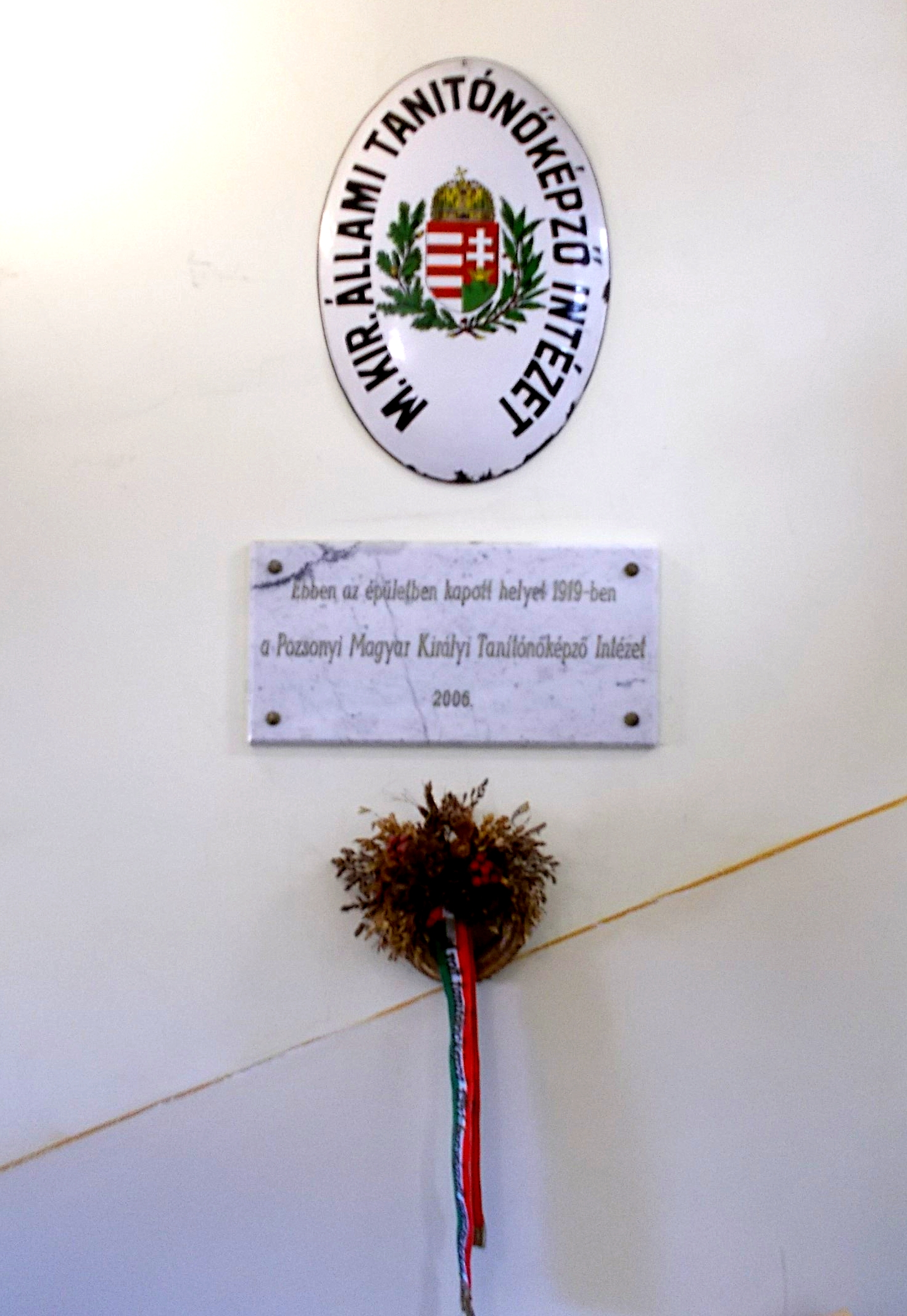 Szerb Antal High School. Interior. Plaque (2006). - 12 Batthyány Ilona utca, Cinkota neighborhood, 16th district of Budapest.